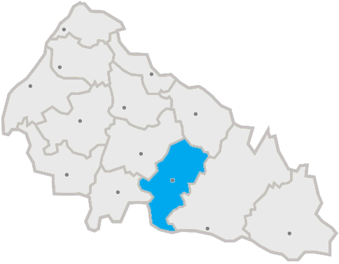 Ukraine, Oblast Transcarpathia, Rajon Khust highlighted